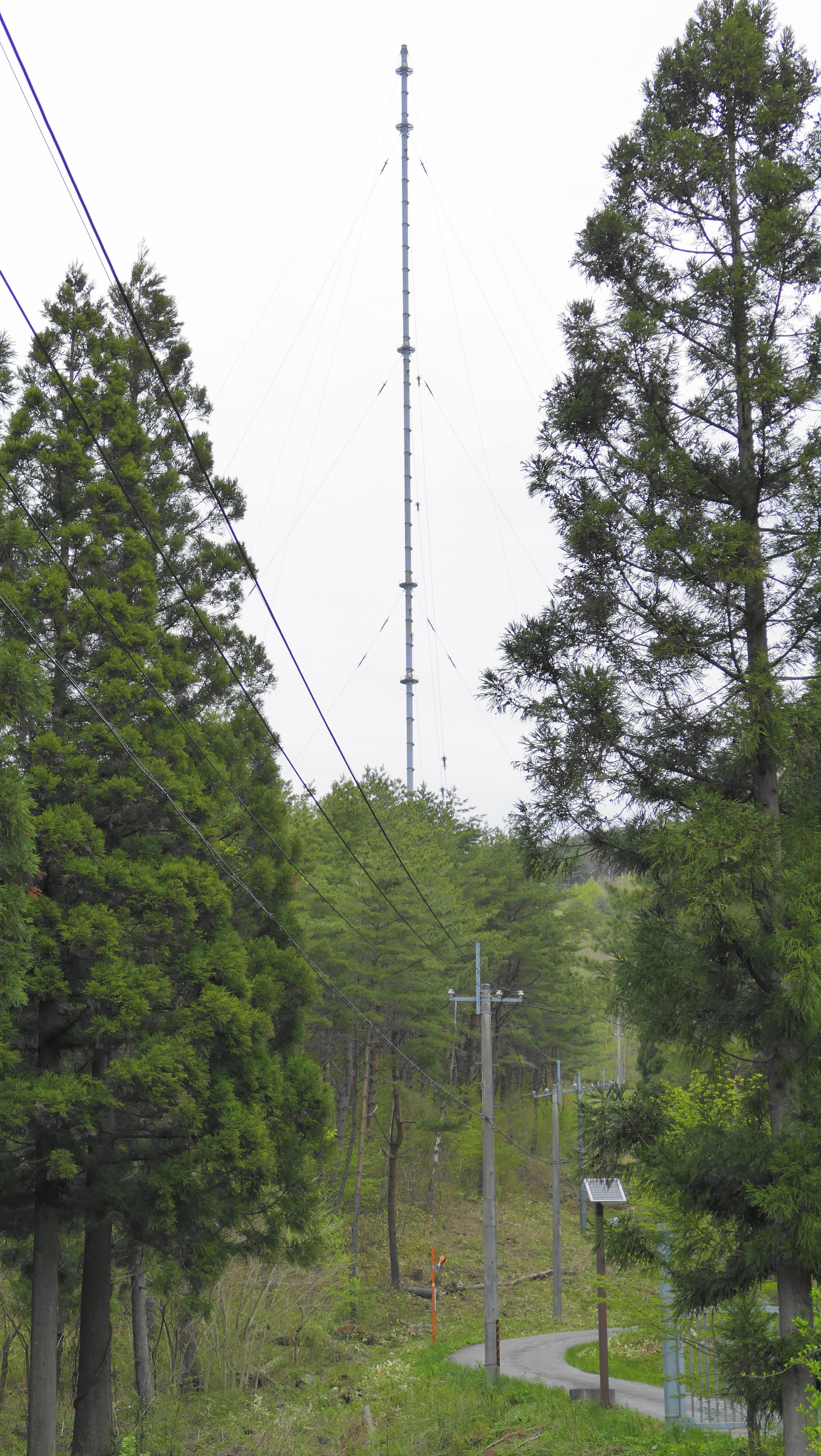 Standard radio transmitting station of Mount Otakadoya (JJY),Fukushima prefecture,Japan